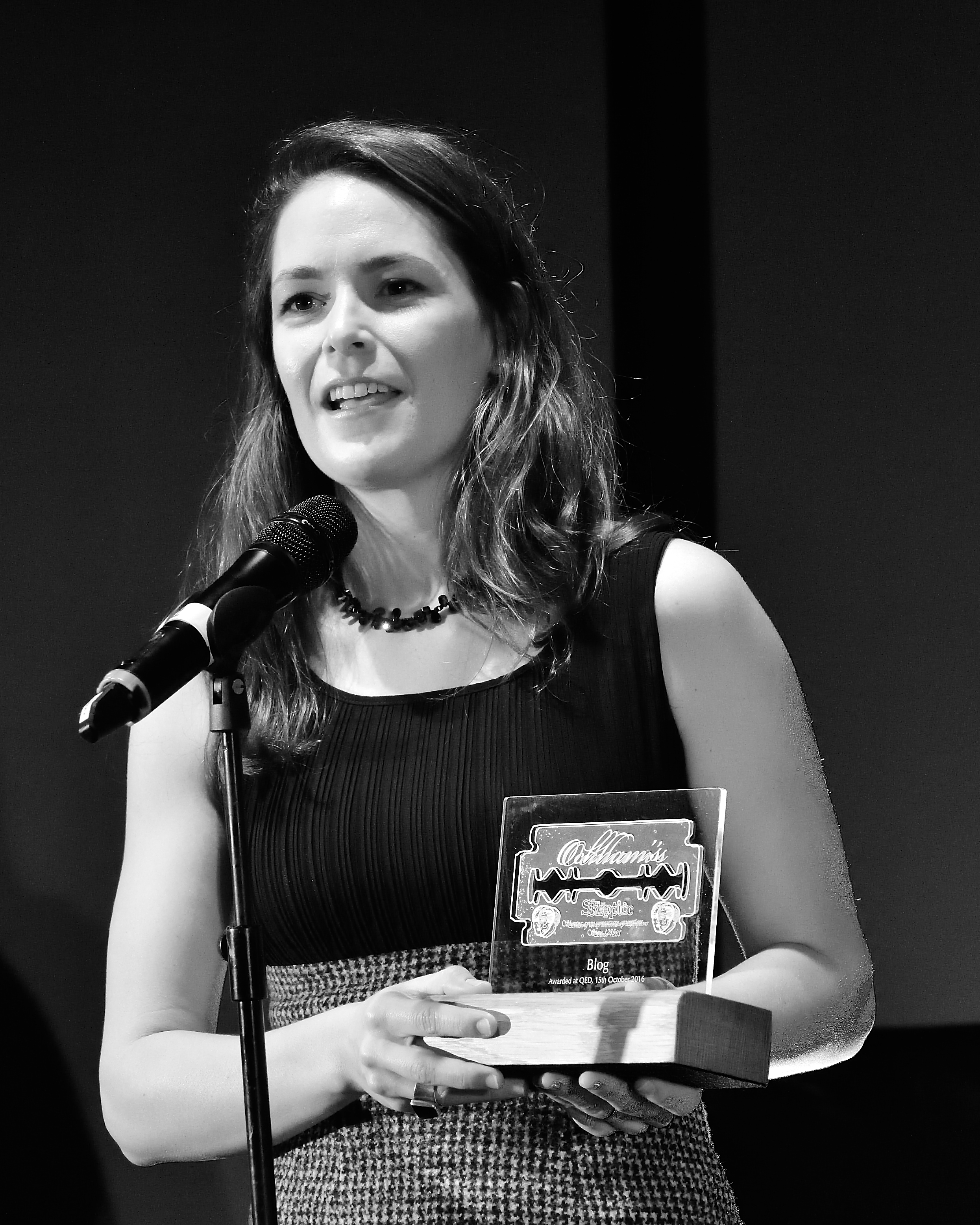 Britt Marie Hermes at QED 2016 with Best Blog Ockham Award